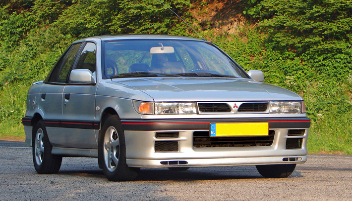 Mitsubishi Lancer GTi 1988-1993